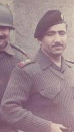 Photograph of Maher Abd al-Rashid, cropped from a wider photograph of Maher Abd al-Rashid, Adnan Khairallah, Abdel Jabbar Khalil Shanshal, and Sultan Hashim Ahmad al-Tai during the Iran-Iraq War.